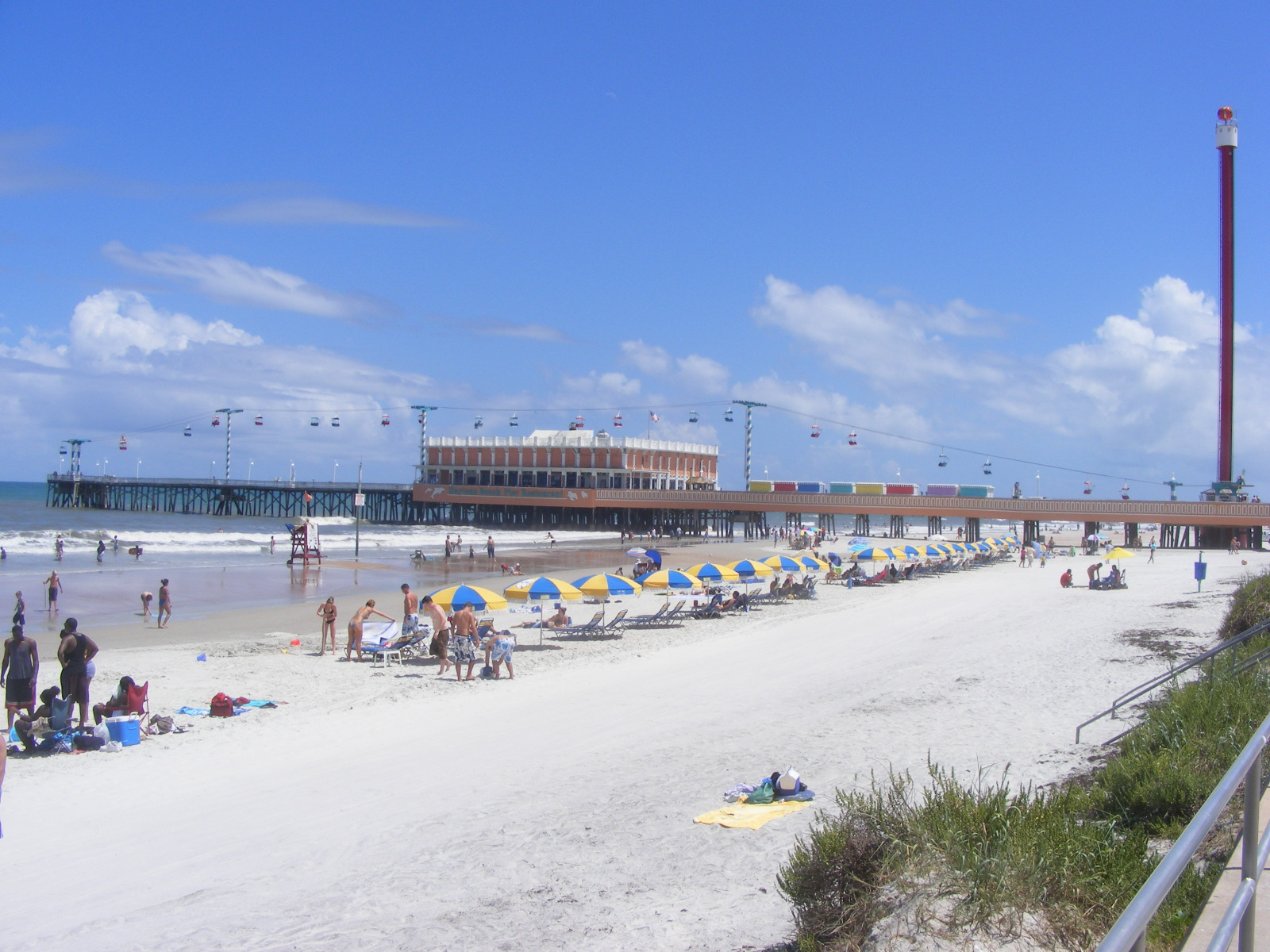 Main Street Pier and Restaurant, Daytona Beach, Volusia County, Florida